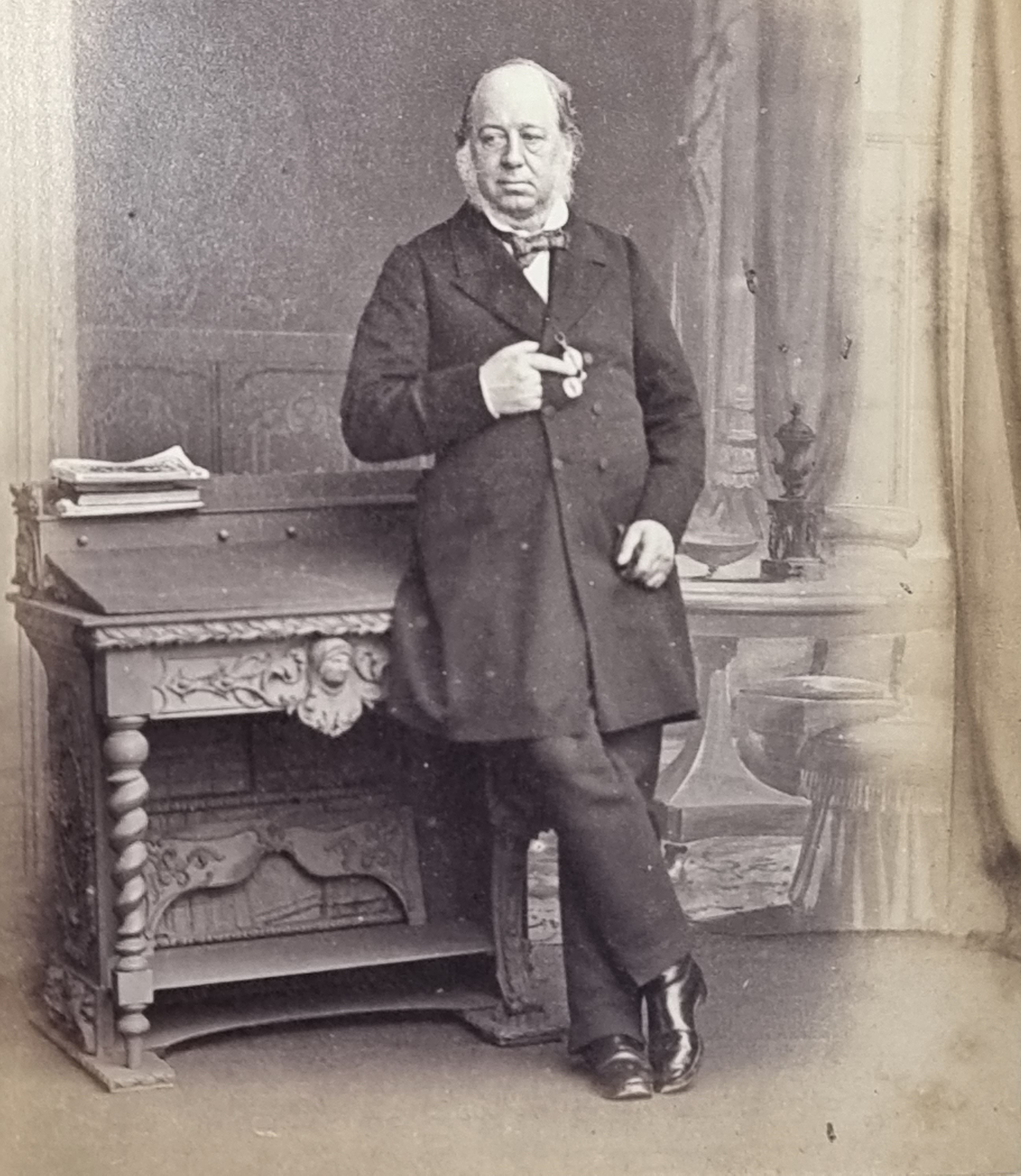 Photograph of John Gould